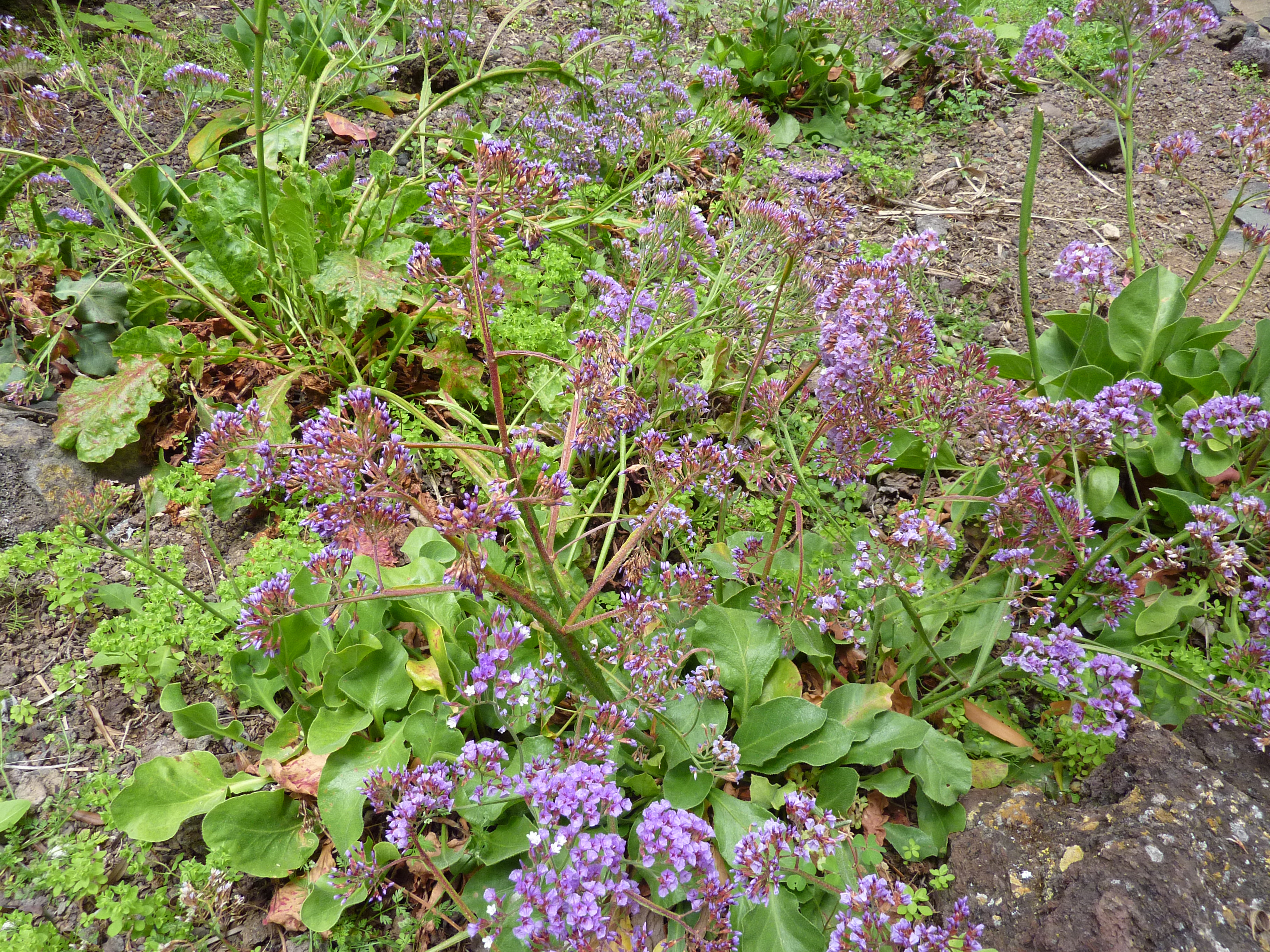 Limonium bourgeaui in the Jardín Botánico Canario Viera y Clavijo, Gran Canaria. This plant is endemic to Lanzarote and Fuertaventura.